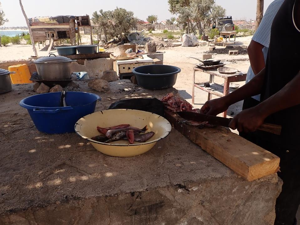 reef fish caught for food